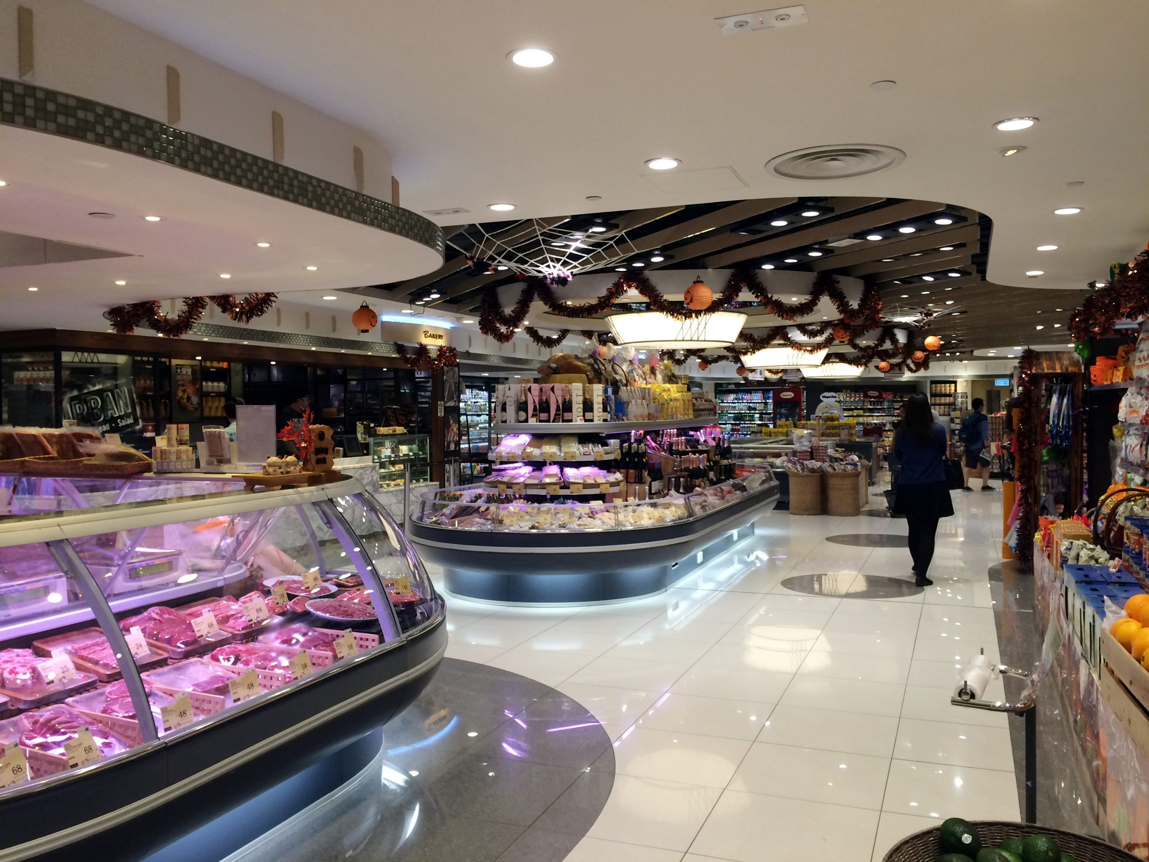 Jasons Food & Living Interior